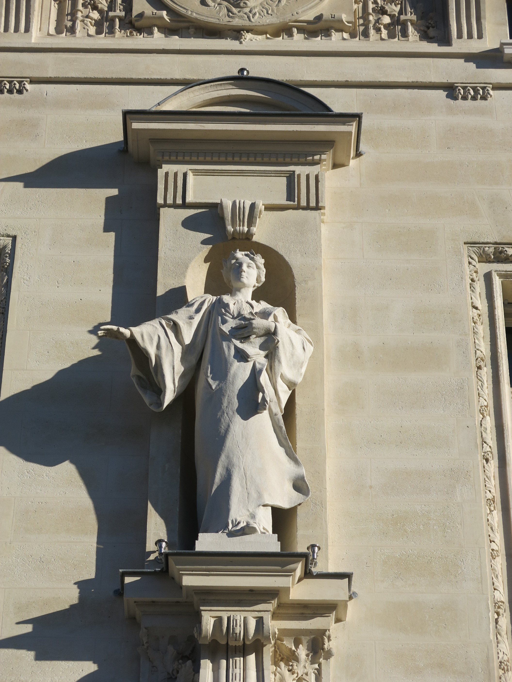 One of the 4 statues on the south wall of the palais de Justice, quai des Orfèvres in Paris : Eloquence (1914).